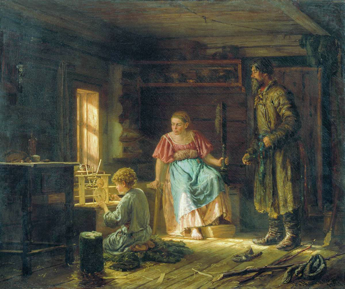 Boy-mechanic